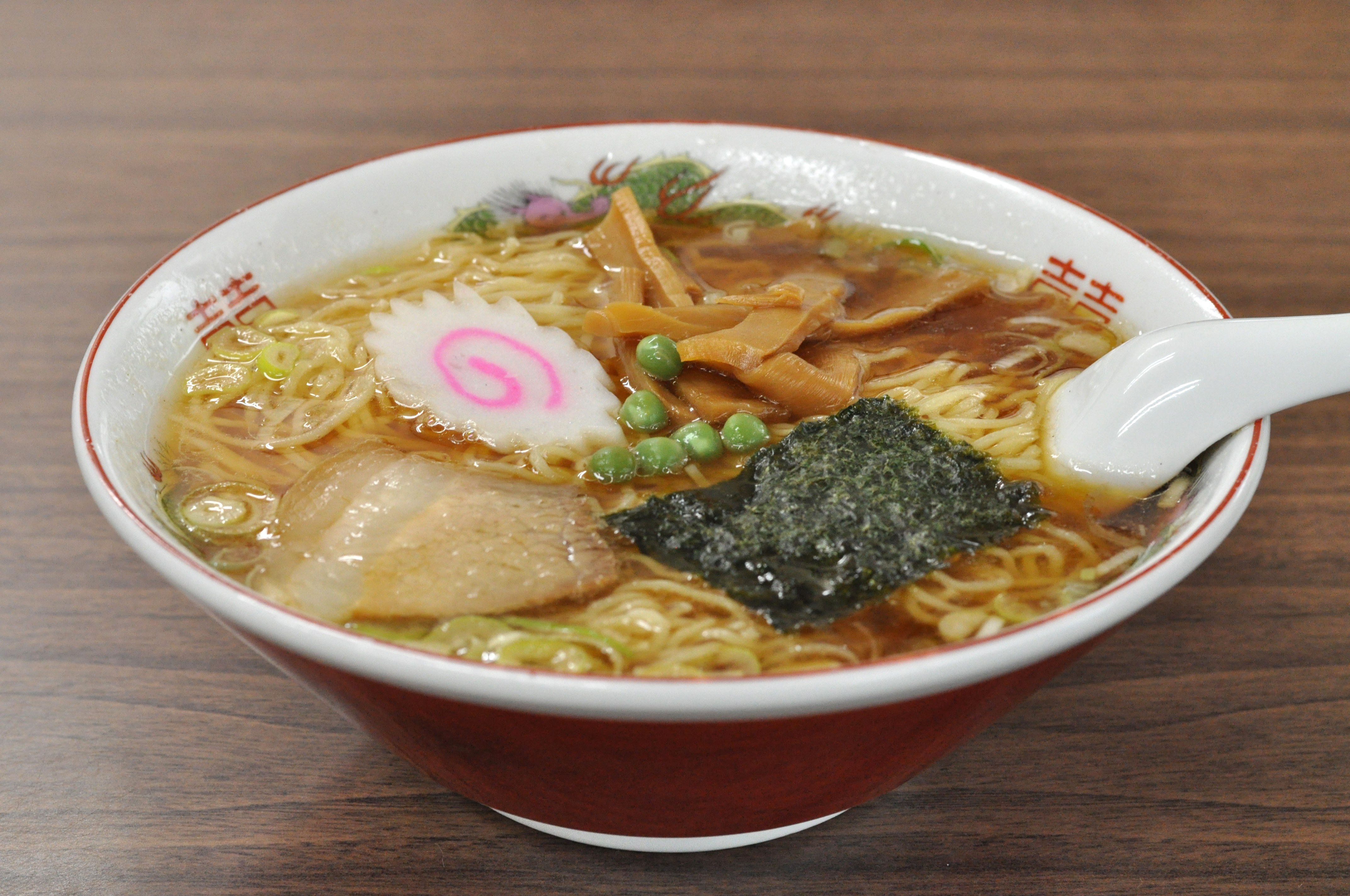 Traditional Ramen